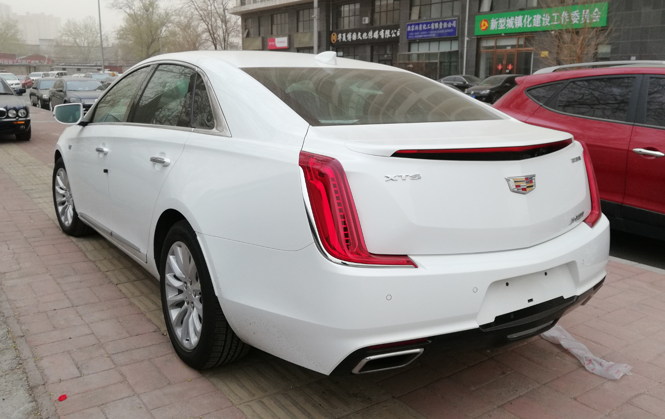 Cadillac XTS facelift photographed in Beijing, China.